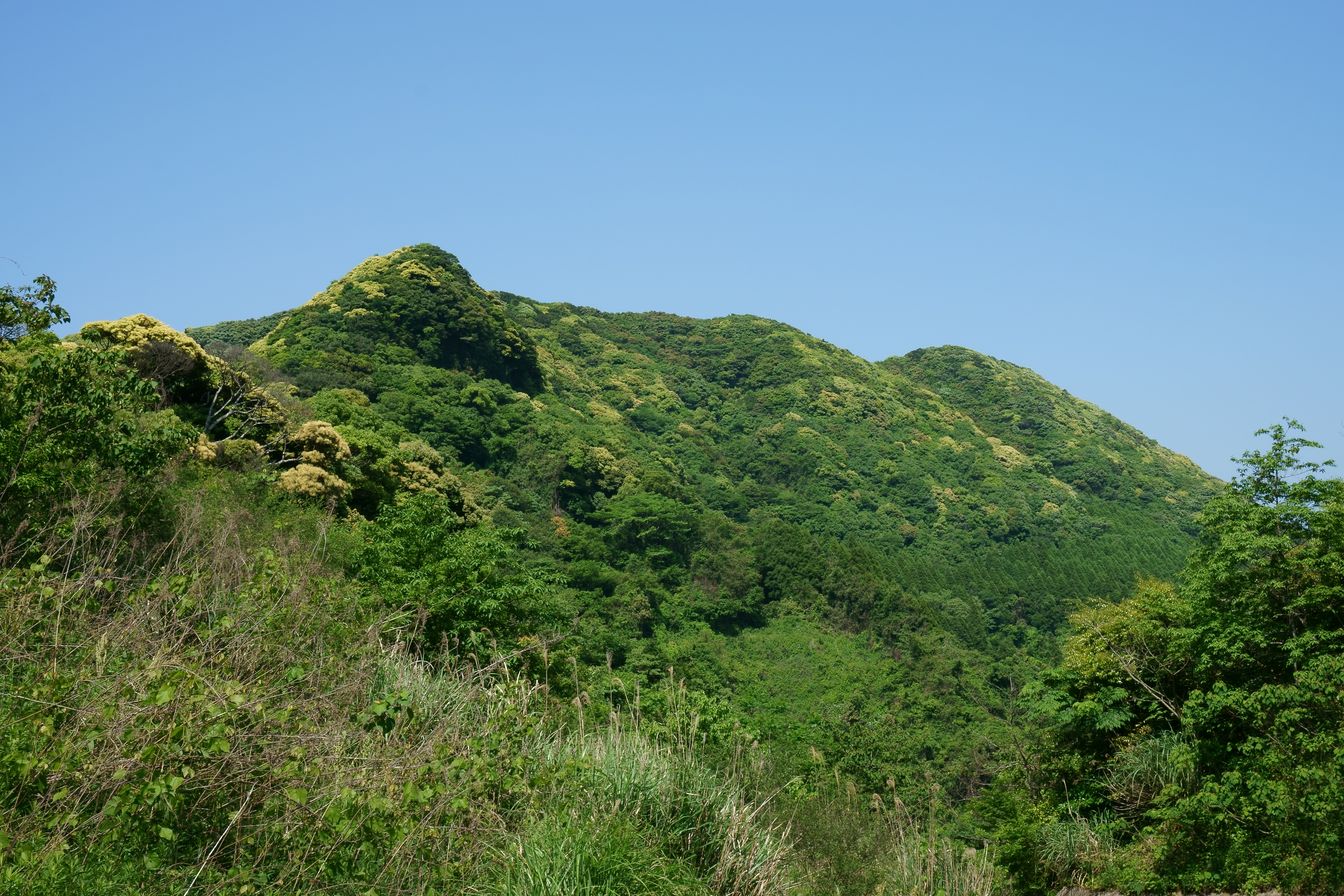 Mount Kishidake(There is Kishidake Castle ruin), from mountain path in Hieda, Kitahata, Karatsu city, Saga prefecture.